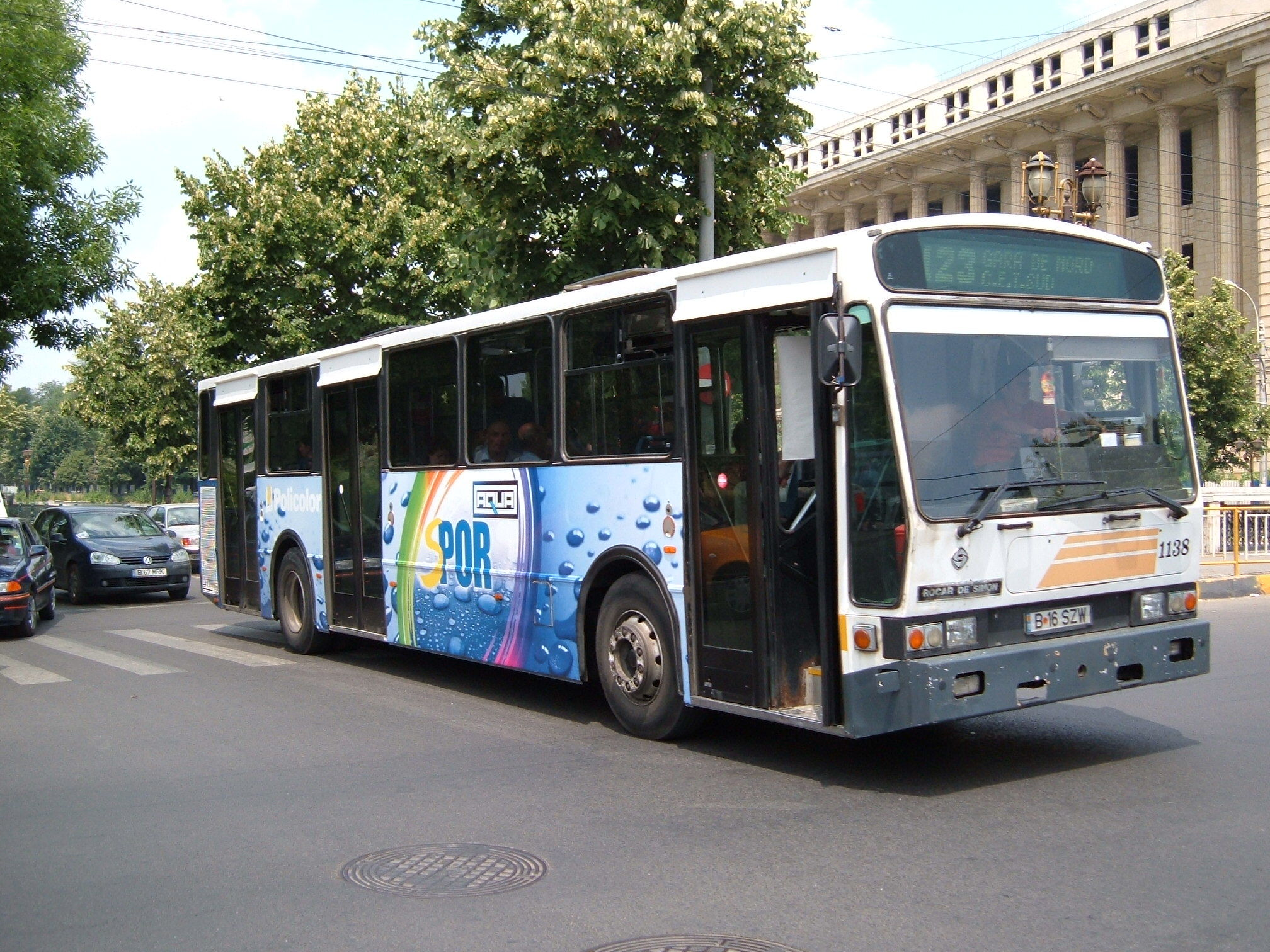 Public bus in Bucharest, Romania (Rocar De Simon U412-260 type). RATB București company.